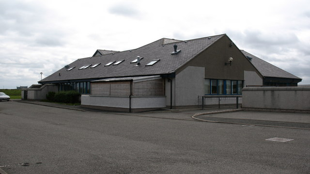 New School at Siabost One of several smart new schools seen on Lewis & Harris in the summer of 07.